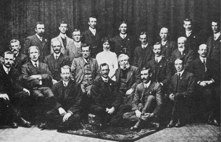 The New Zealand Labour Party annual conference held in Christchurch, 15-17 March 1912.